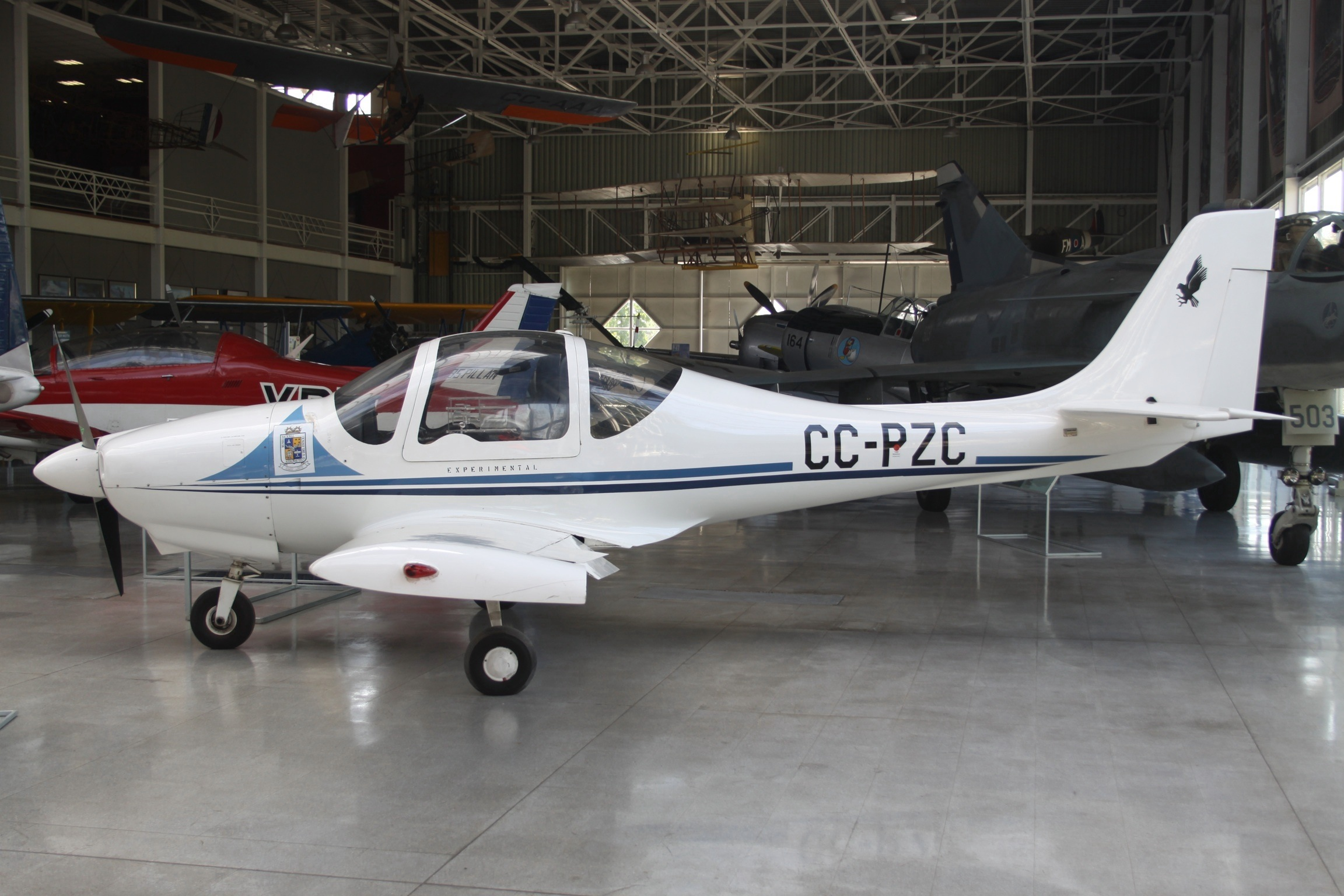 At Santiago Los Cerillos